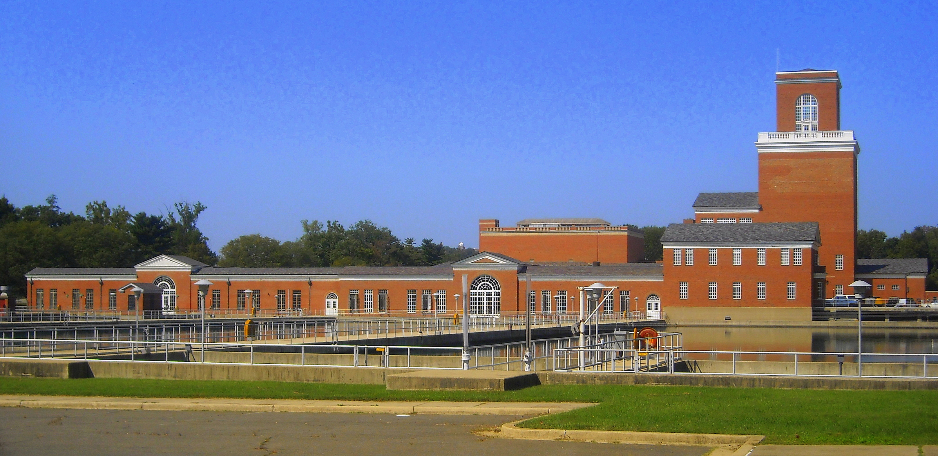 The Dalecarlia Water Treatment Plant located at 5900 MacArthur Boulevard, NW in the Palisades neighborhood of Washington, D.C. The facility is part of the Washington Aqueduct, a National Historic Landmark.